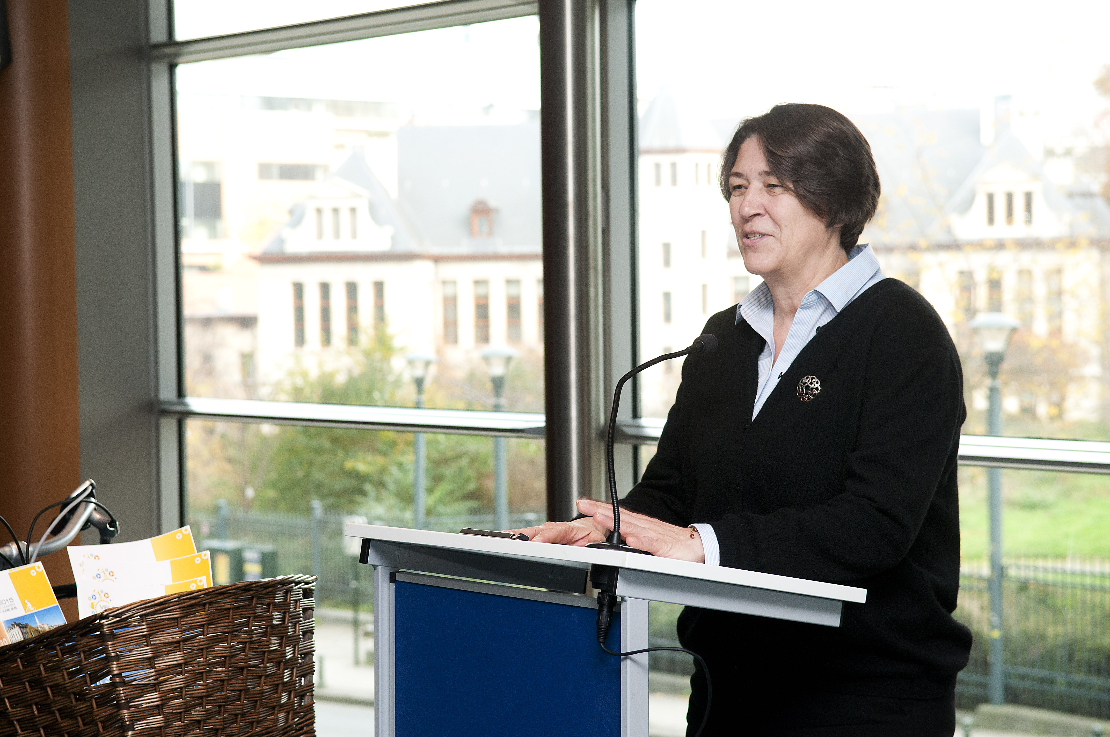 Cycling Forum Europe Inauguration